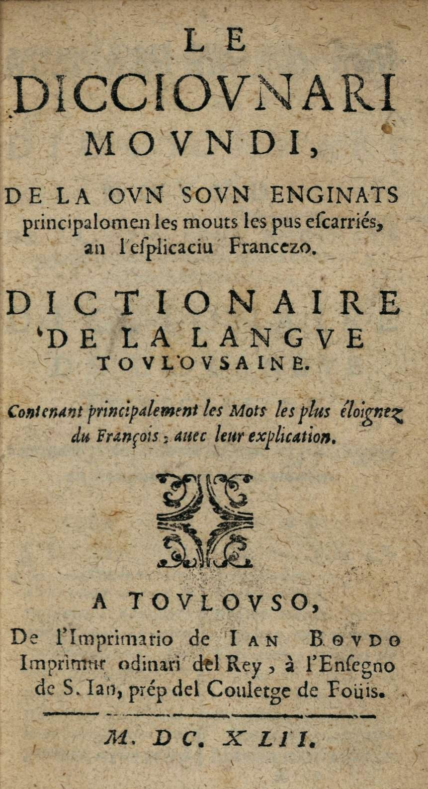 Coverpage of the Diccionari mondin